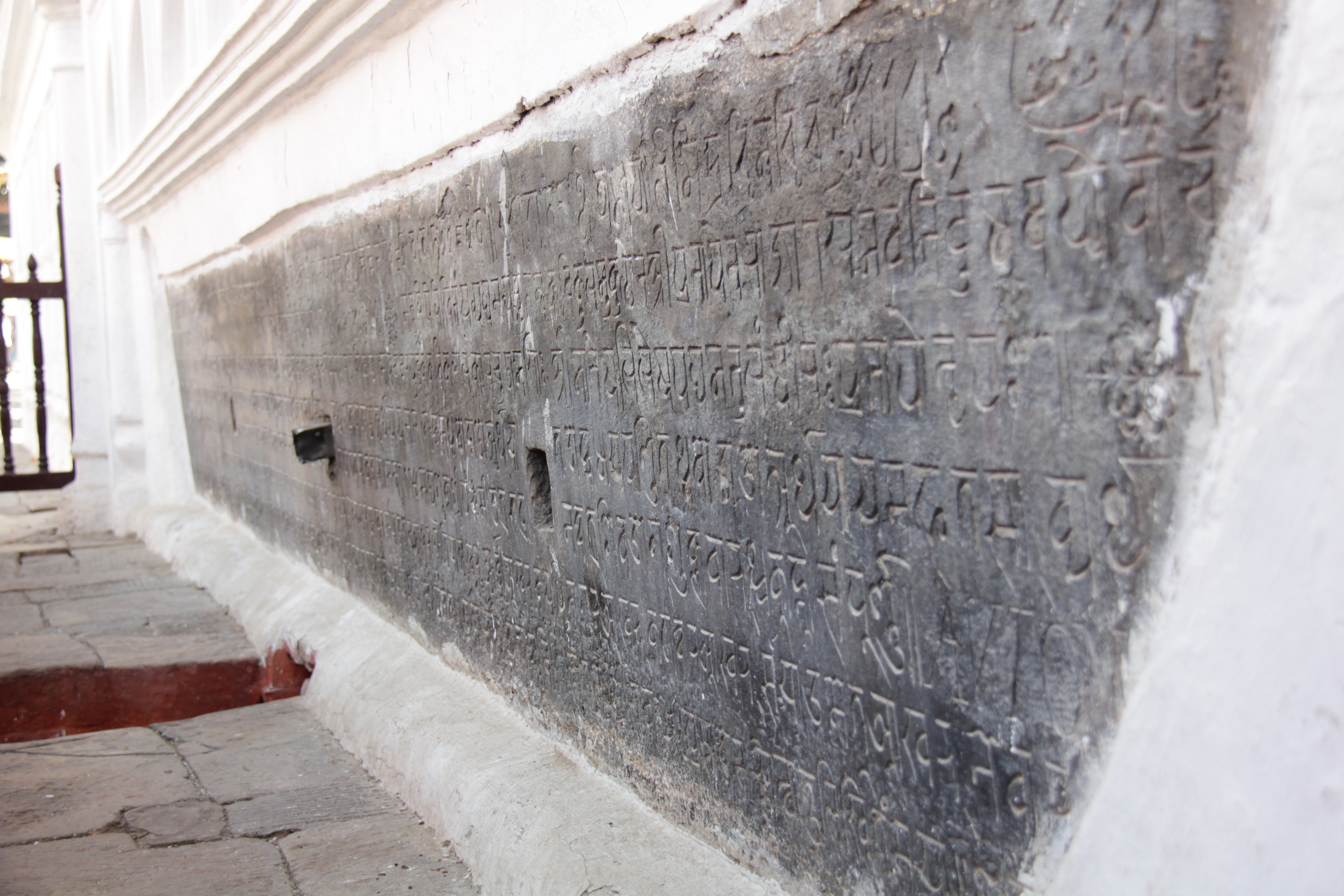 Jaldroni